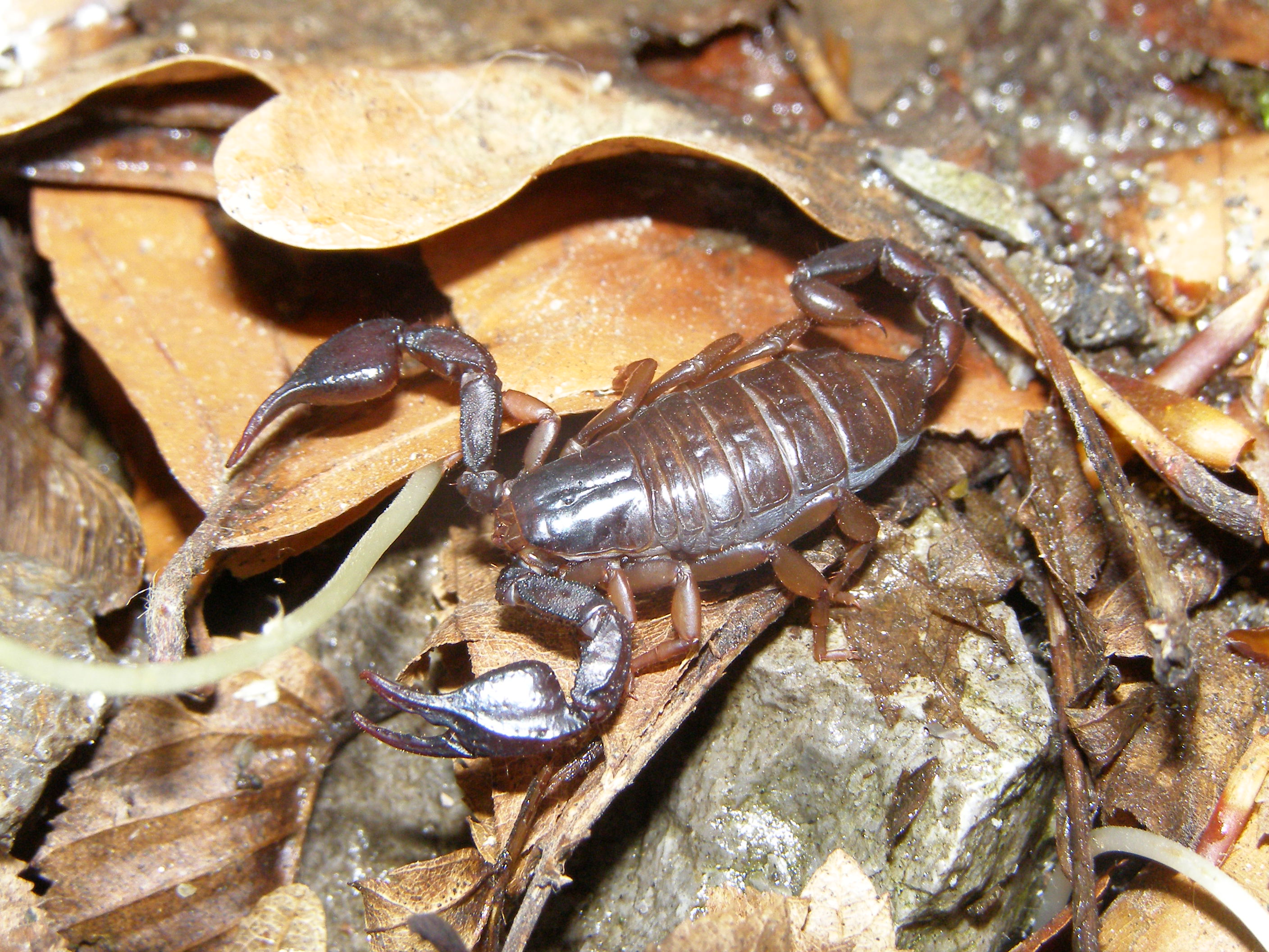 Euscorpius carpathicus is the only one species of scorpions that lives in Romania. Dimension - about 3cm long.